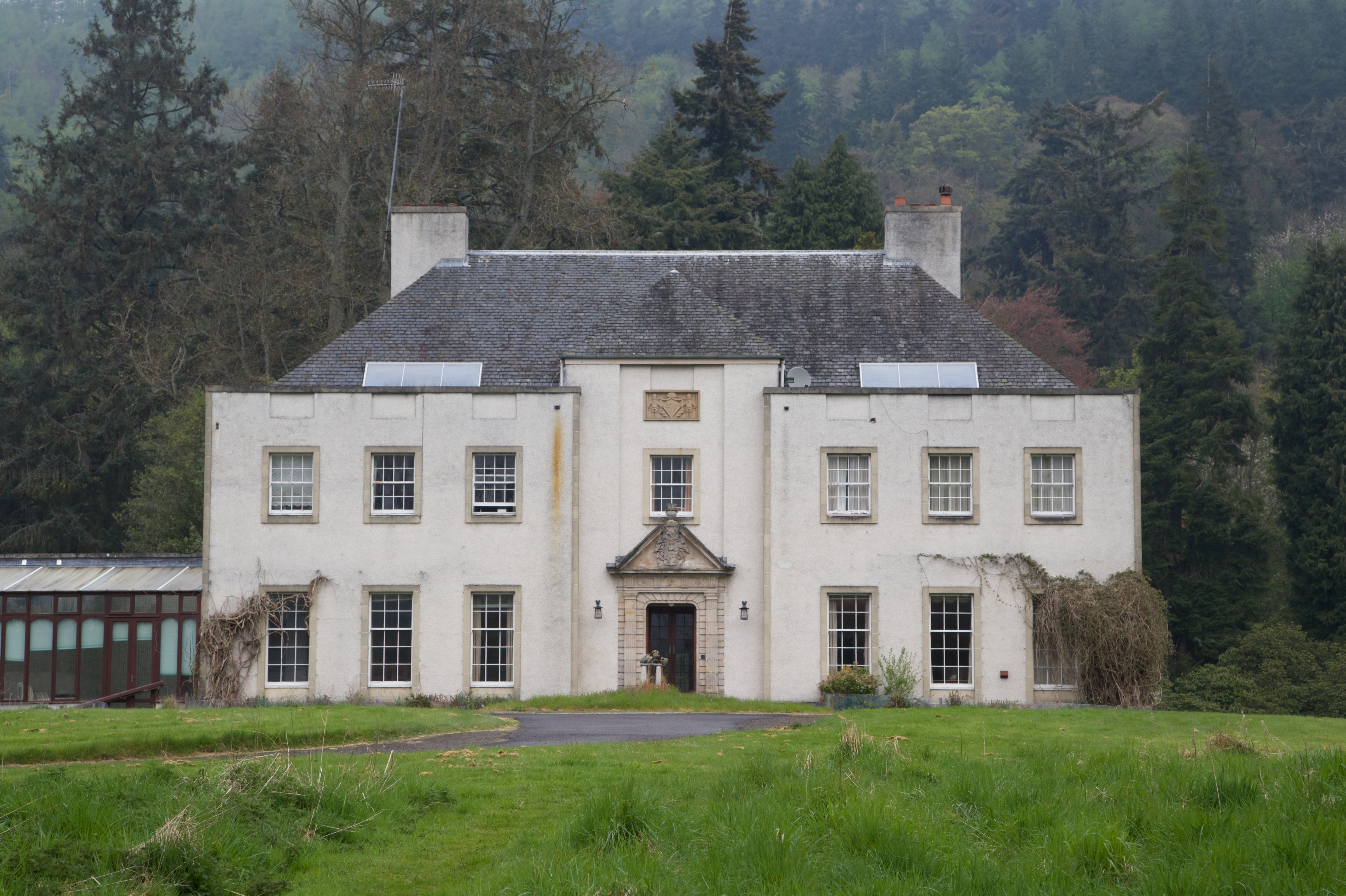 Moncrieffe House Wikidata has entry Q17838624 with data related to this item.